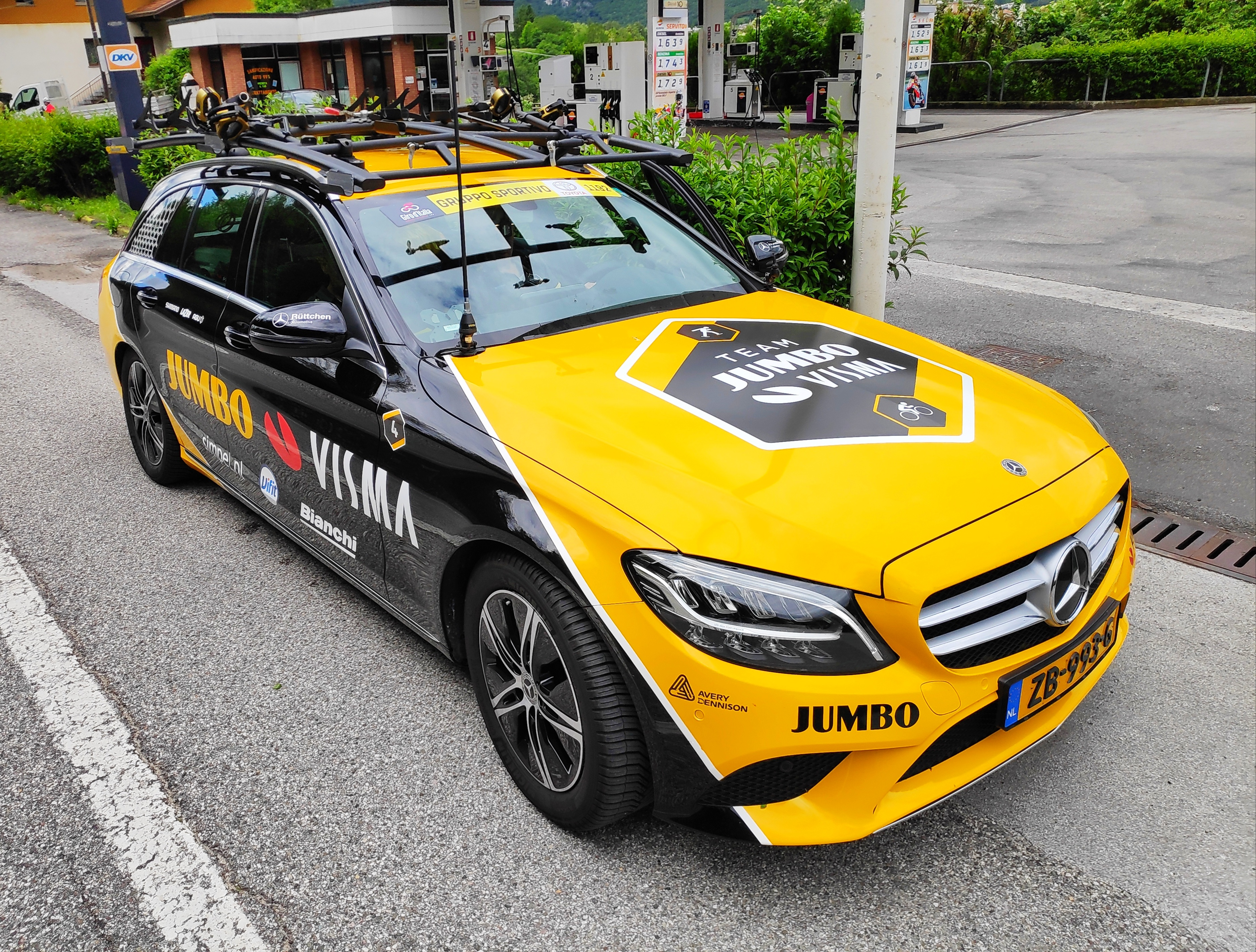 Team Jumbo-Visma support car (2019 Giro d'Italia)